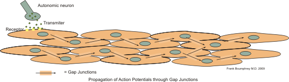 propogation of action potential through gap junctions in single unit smooth muscle.